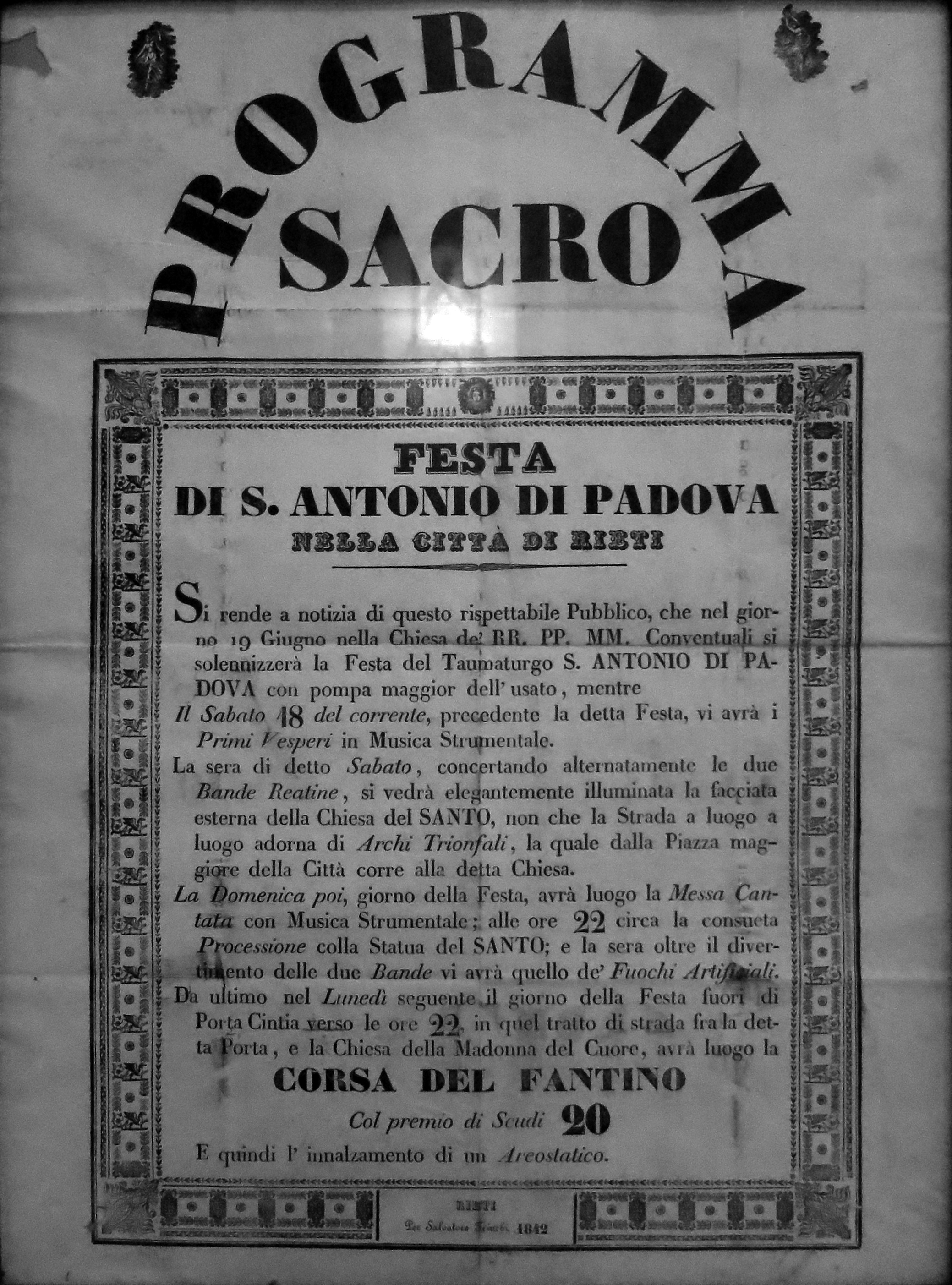 Leaflet with the plan for the "Giugno antoniano" religious celebrations of 1842 in Rieti, central Italy. It is framed inside Saint Francis church, outside the Saint Anthony chapel.